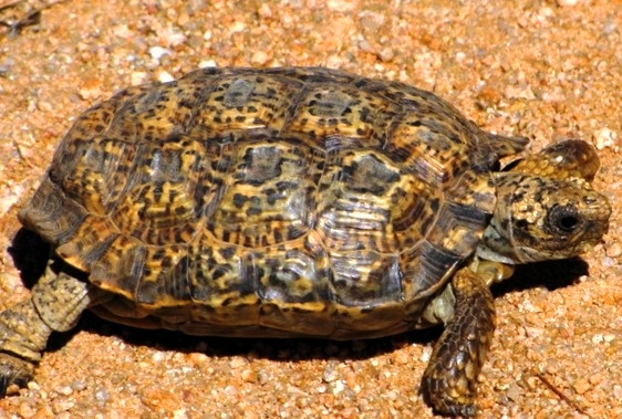 Homopus signatus. Speckled Padloper.